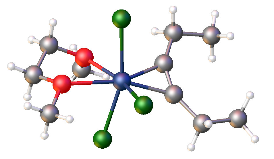 Structure of NbCl3(dme)(hexyne)